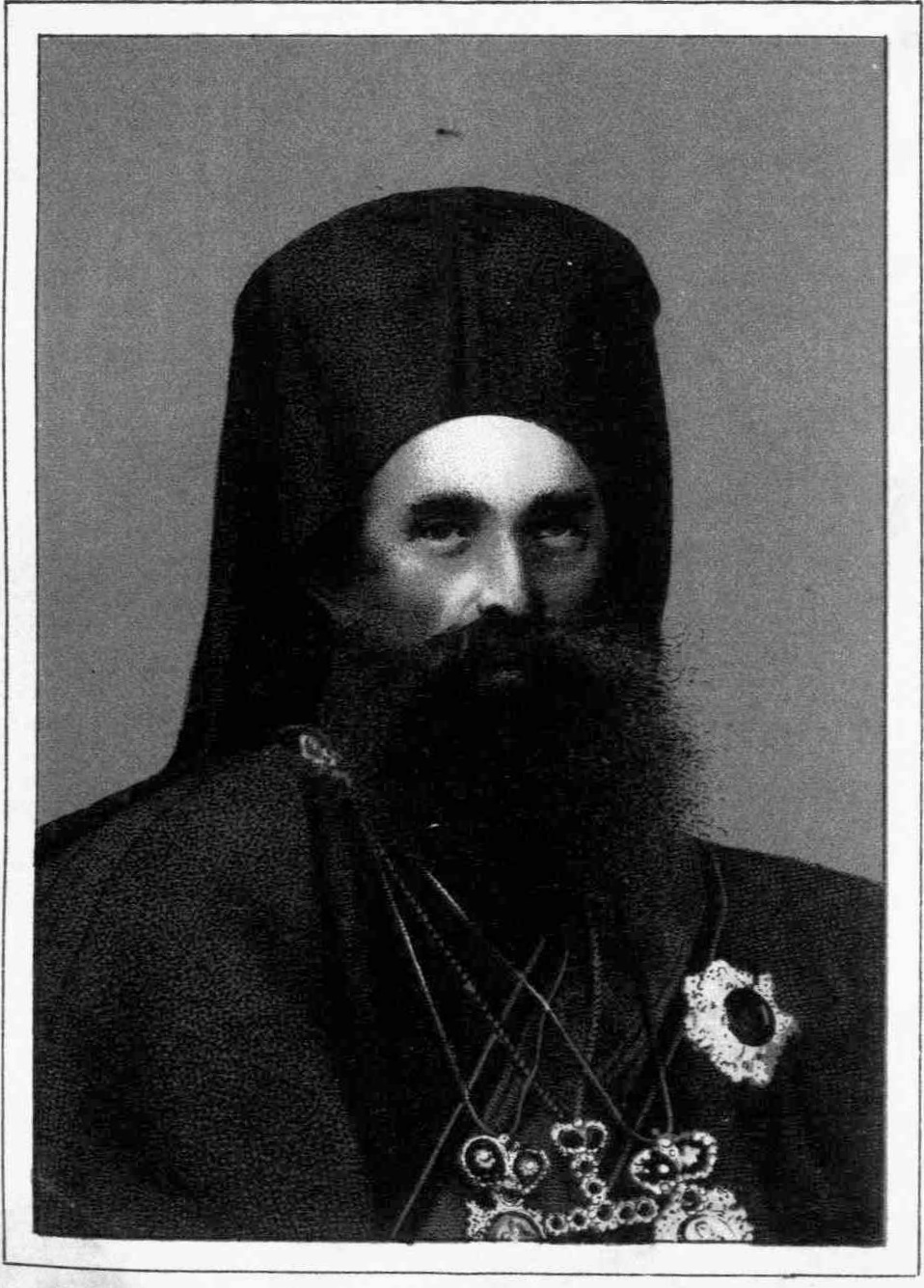 Ecumenical Patriarch Joachim IV, illustration from Imerologion Skokou 1888